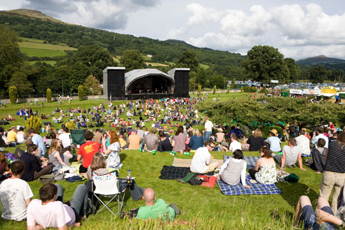 The Main Stage at Green Man Festival 2008 held in South Wales at Glanusk Park Estate.